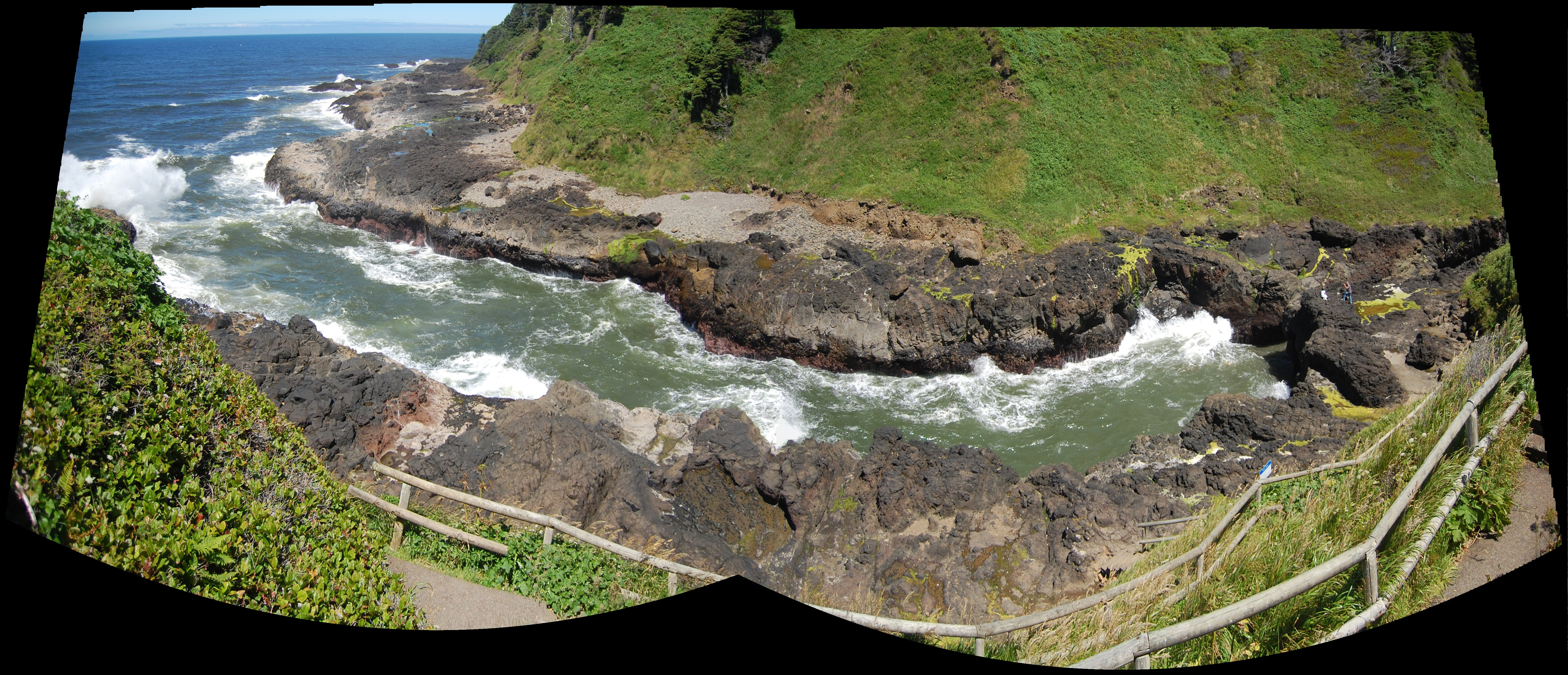 Viewed from above